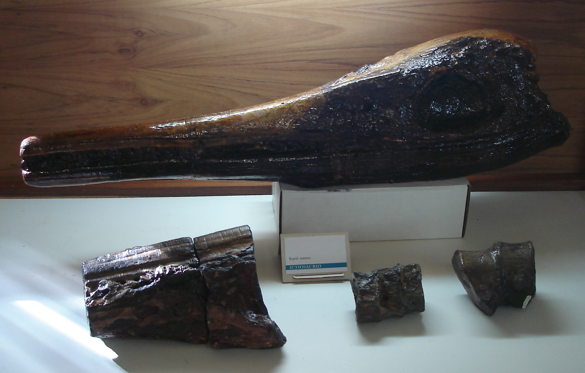 Skull of Platypterygius sachicarum in the Paleontological Museum of Villa de Leyva, Colombia